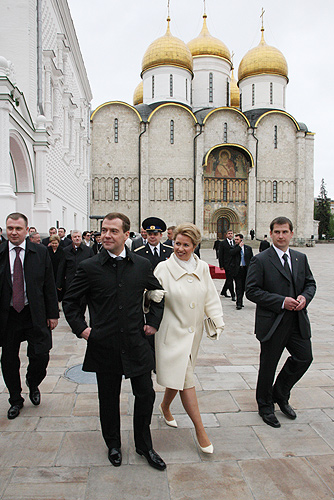 MOSCOW. President of Russia Dmitry Medvedev and his wife Svetlana on Cathedral Square in the Kremlin.